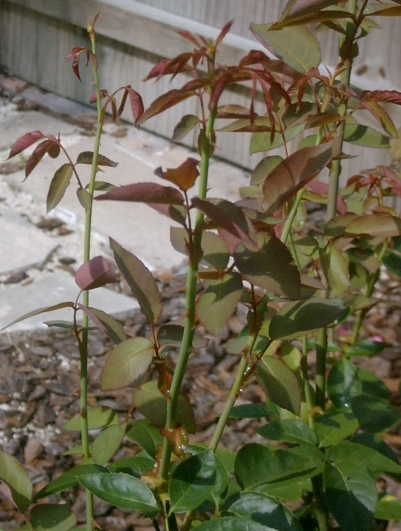 Personal photo new rose growth demonstrating juvenile anthocyanin